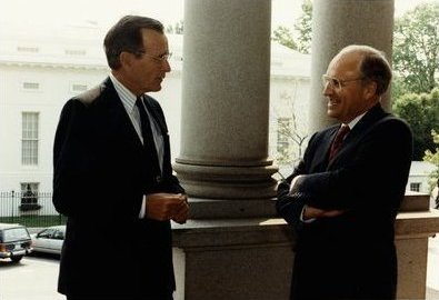 President George H.W. Bush and Secretary of Defense Richard B. Cheney in 1991, on the Navy steps of Old Executive Office Building). In the background, the West Wing of the White House.